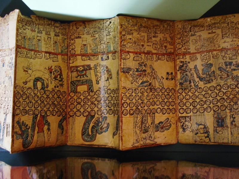 A reproduction of pre-Columbian Maya Madrid codex on display at the museum at Copan. Copan, Honduras